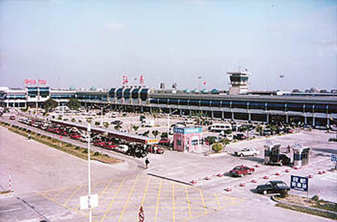 swatown waishajichang